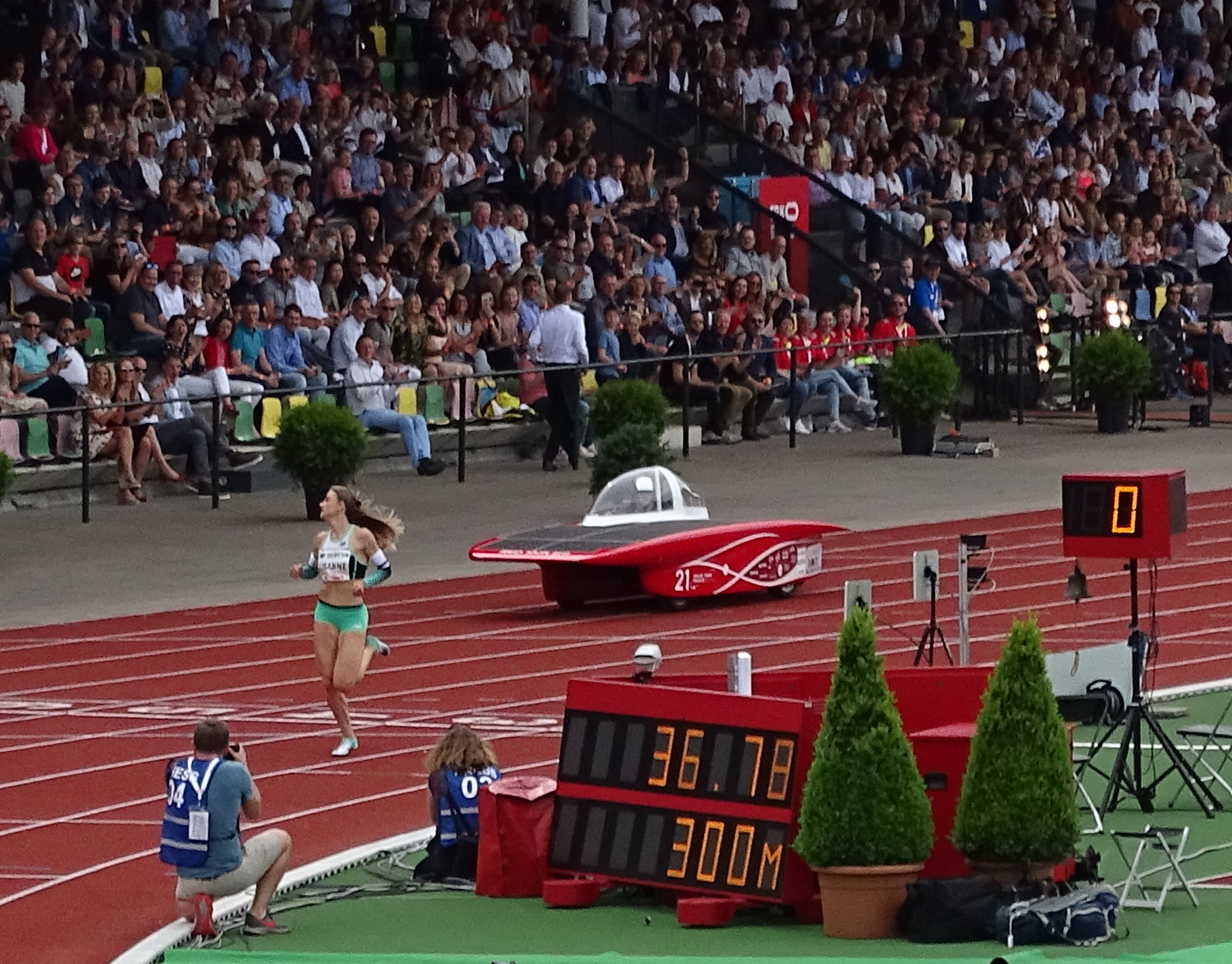 Lisanne de Witte beats Red Swift, the solar vehicle of Solar Team Twente, in a 300m Solar Challenge race during the 2019 FBK Games.